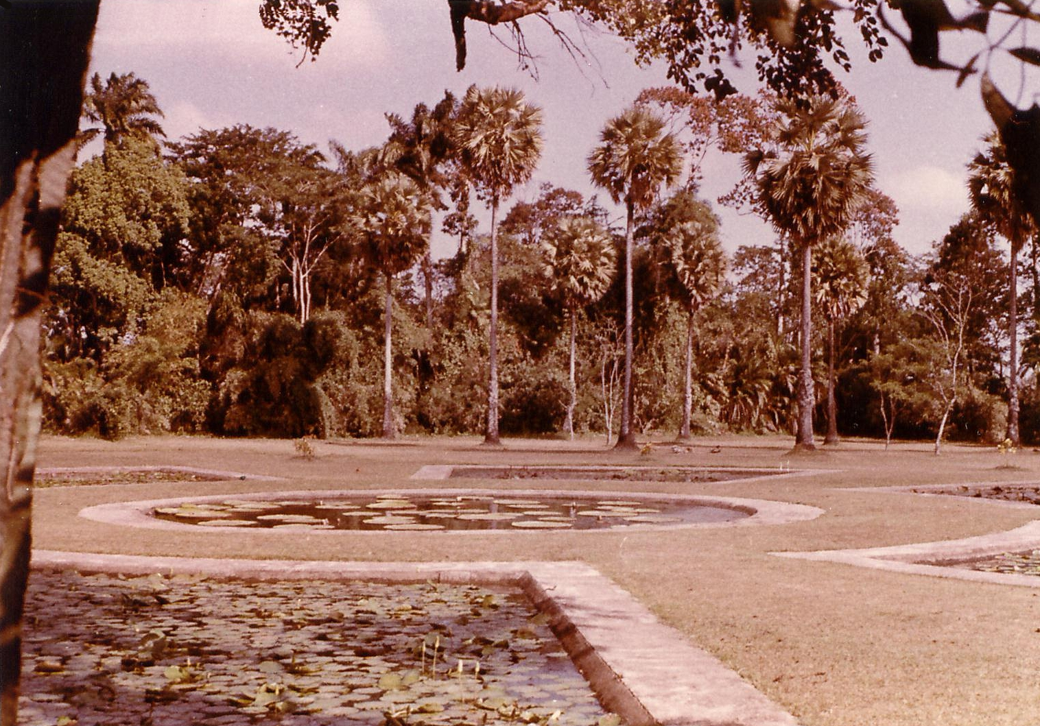 Giant water lilies of the genus Victoria in the Botanical Gardens of Georgetown (Guyana) - 1958